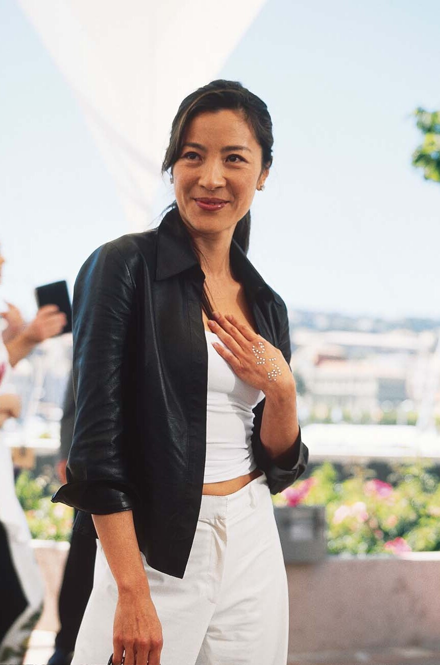 Michelle Yeoh at Cannes in 2000.